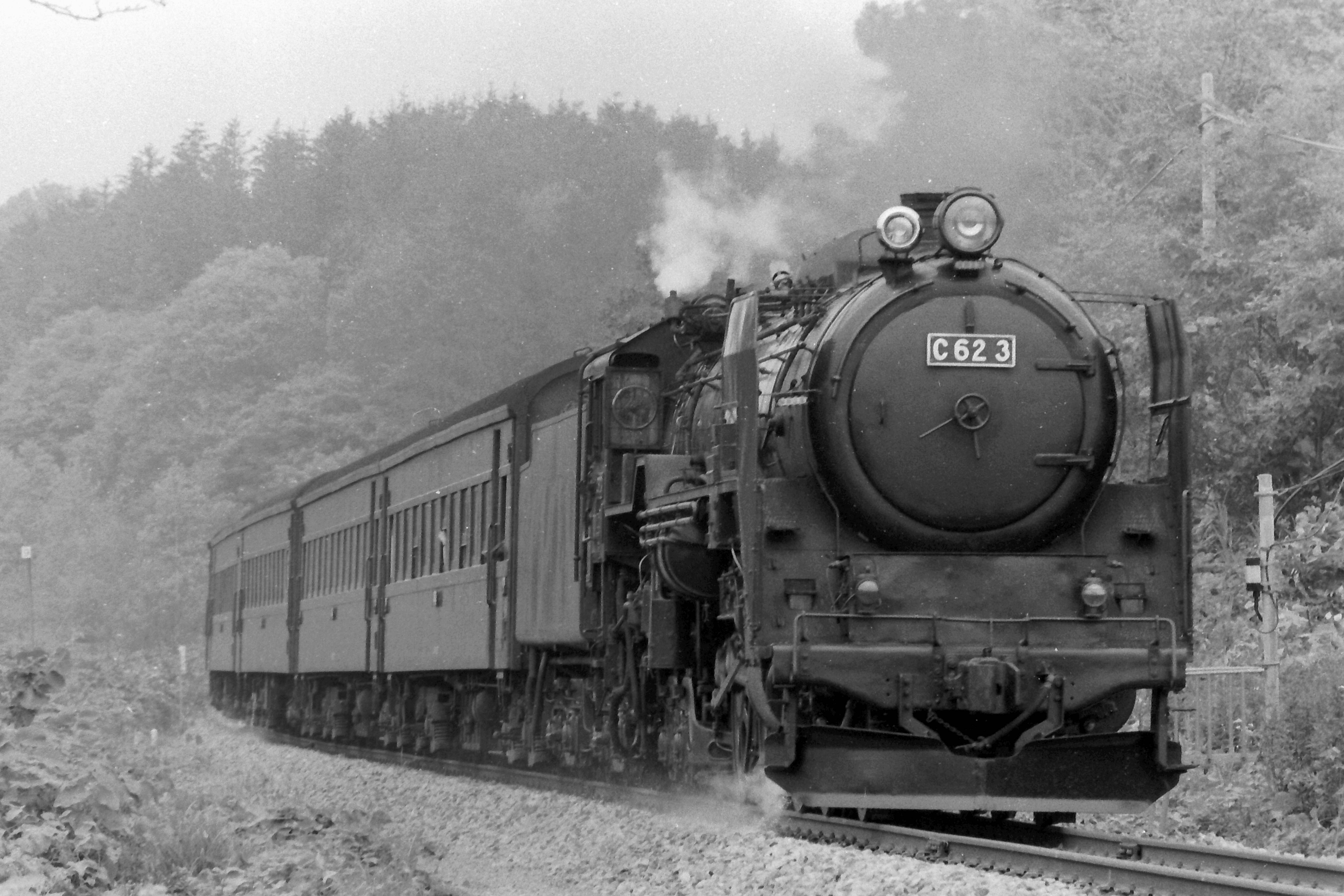 C62 3 steam engine and 45 series haling carriages running toward Kuchan